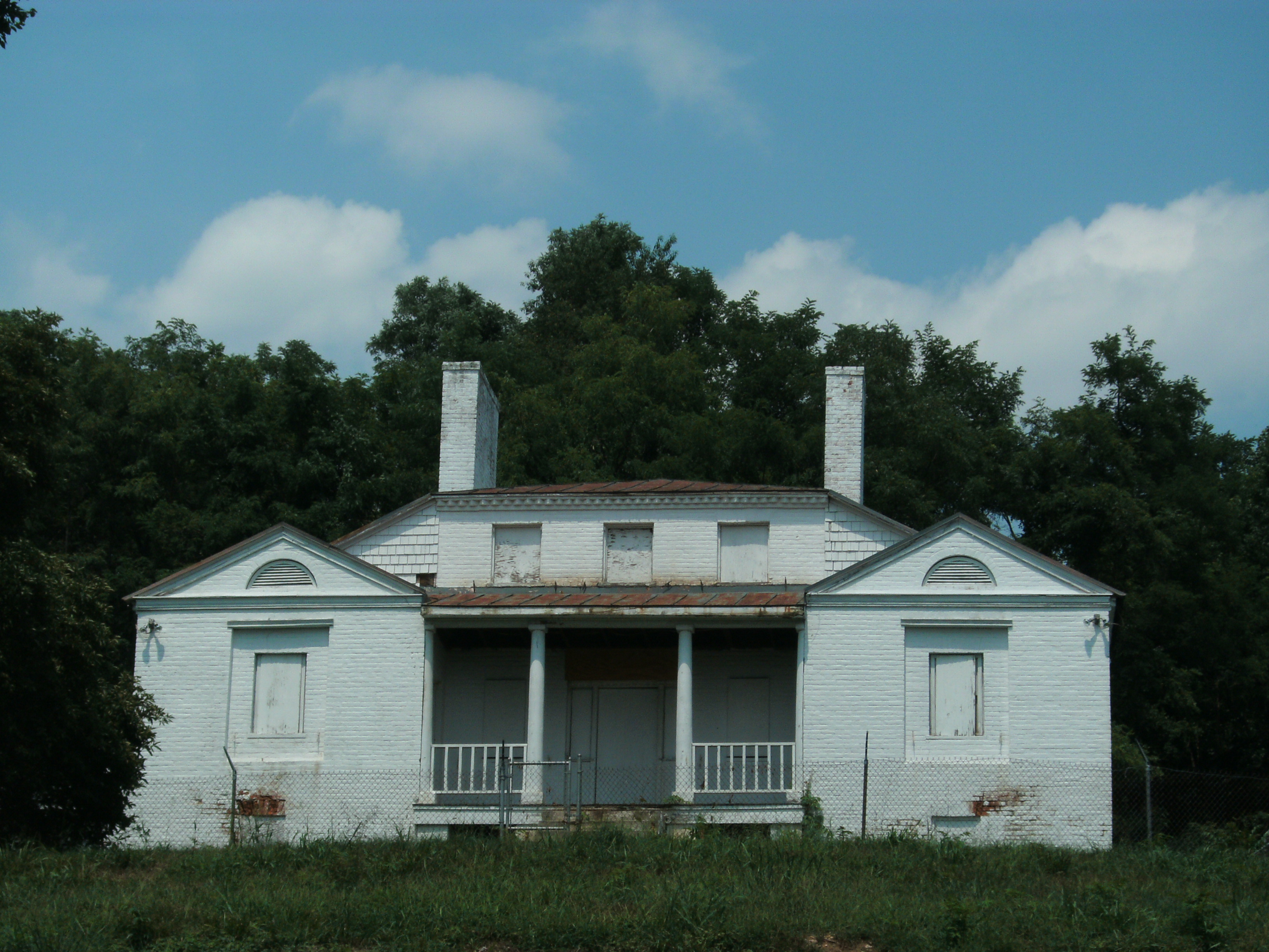 Self-made image. Huntley, an early 19th-century Federal-style plantation manor in the Hybla Valley area of Fairfax County, Virginia, United States.